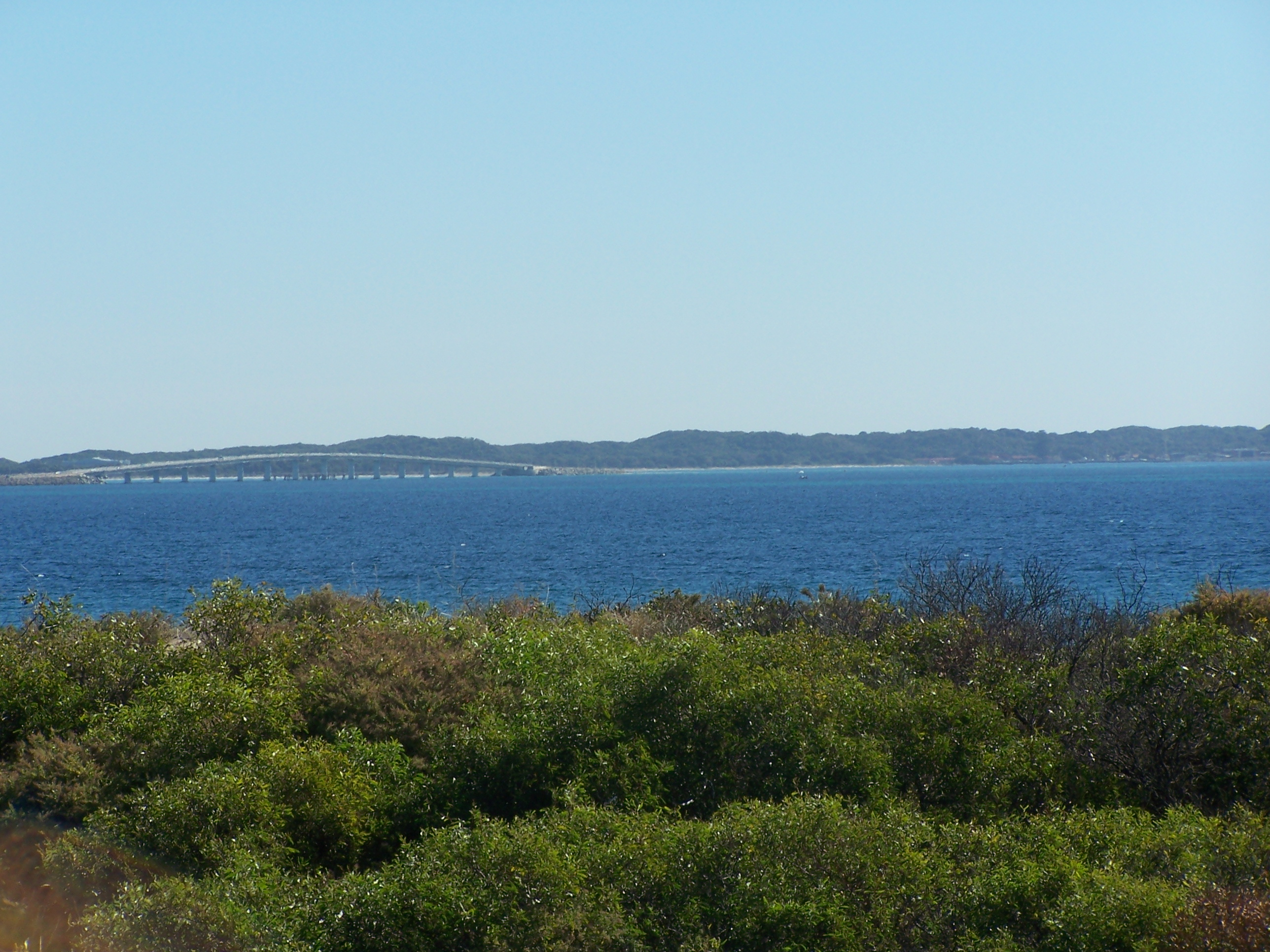 View of Garden Island including causeway taken from near Kwinana Grain Terminal